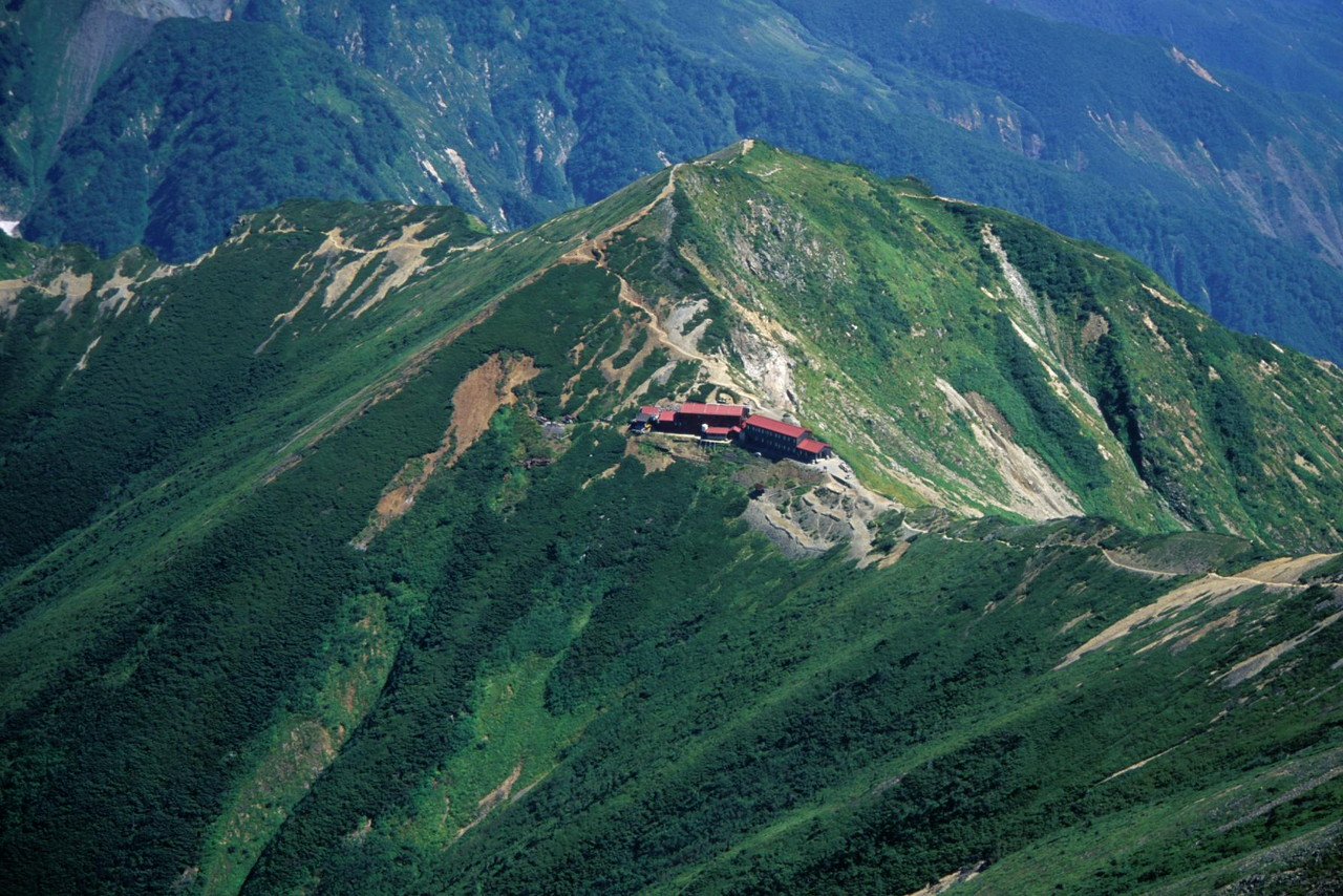 Mount Shira (Shira-take) and Hut from Mount Goryu (Goryu-dake) in Hida Mountains, Japan.